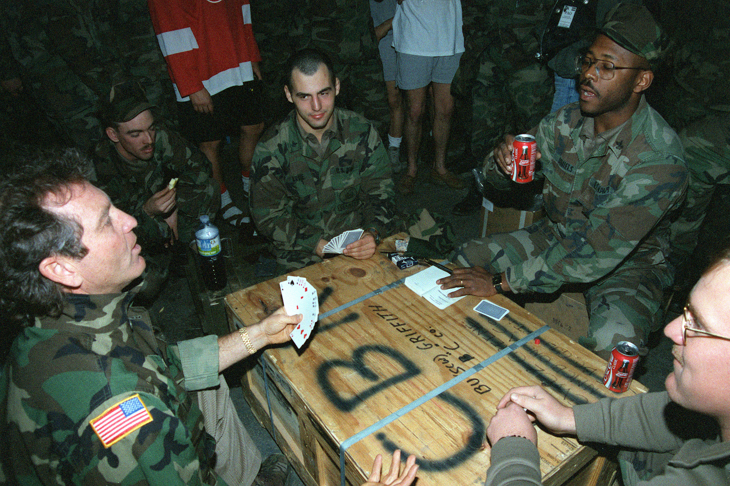 Country music singer Larry Gatlin plays cards with Seabees of Naval Mobile Construction Battalion One-Thirty-Three (NMCB-133) during a special Christmas Day visit. Mr. Gatlin performed for the Seabees at a former Russian Army base scud missile magazine now converted to a 200-man bunk room in support of Operation Joint Endeavor, a peace keeping mission to Croatia.